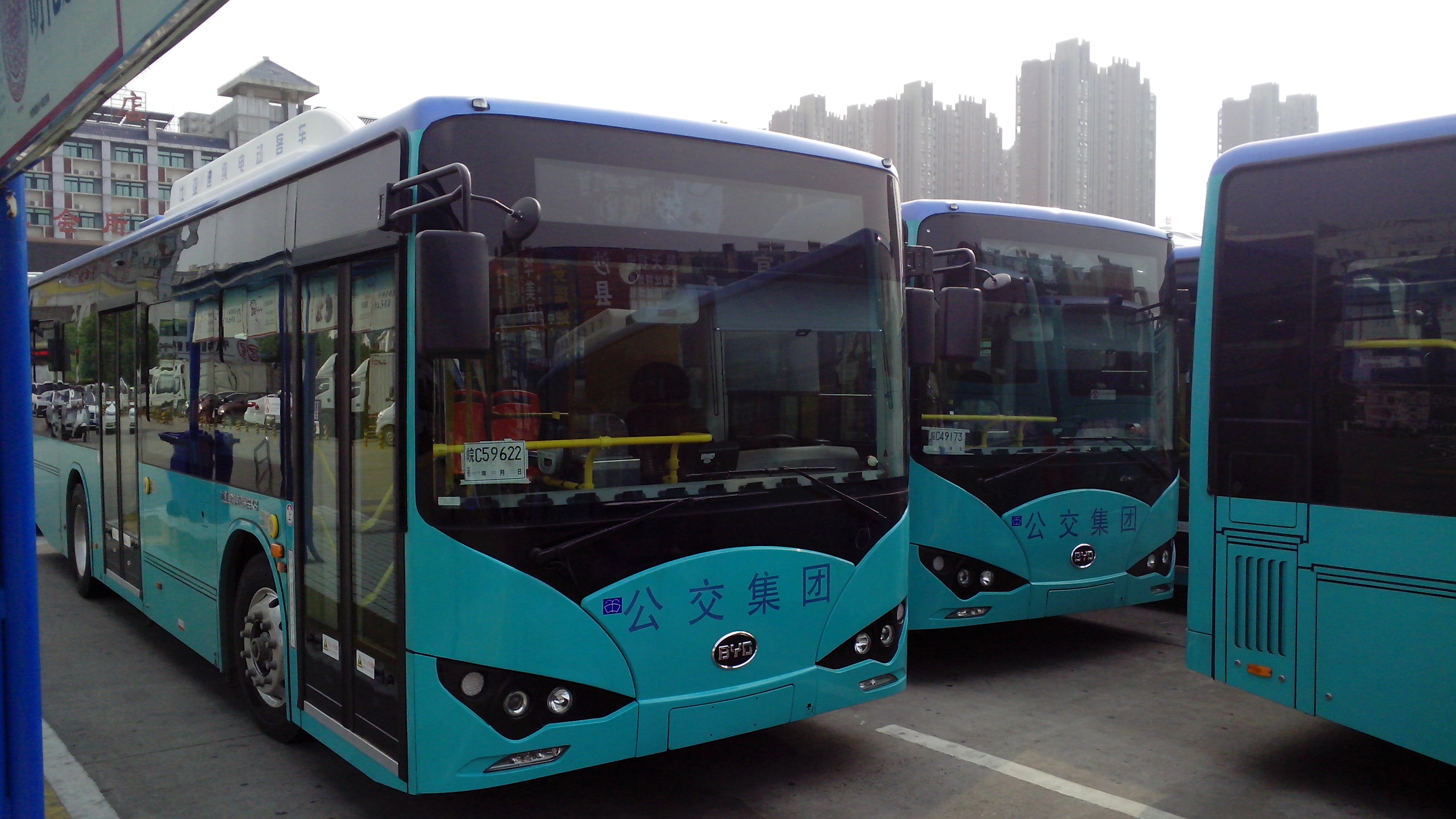 中文（中国大陆）: Bengbu Bus No.110 with BYD K8